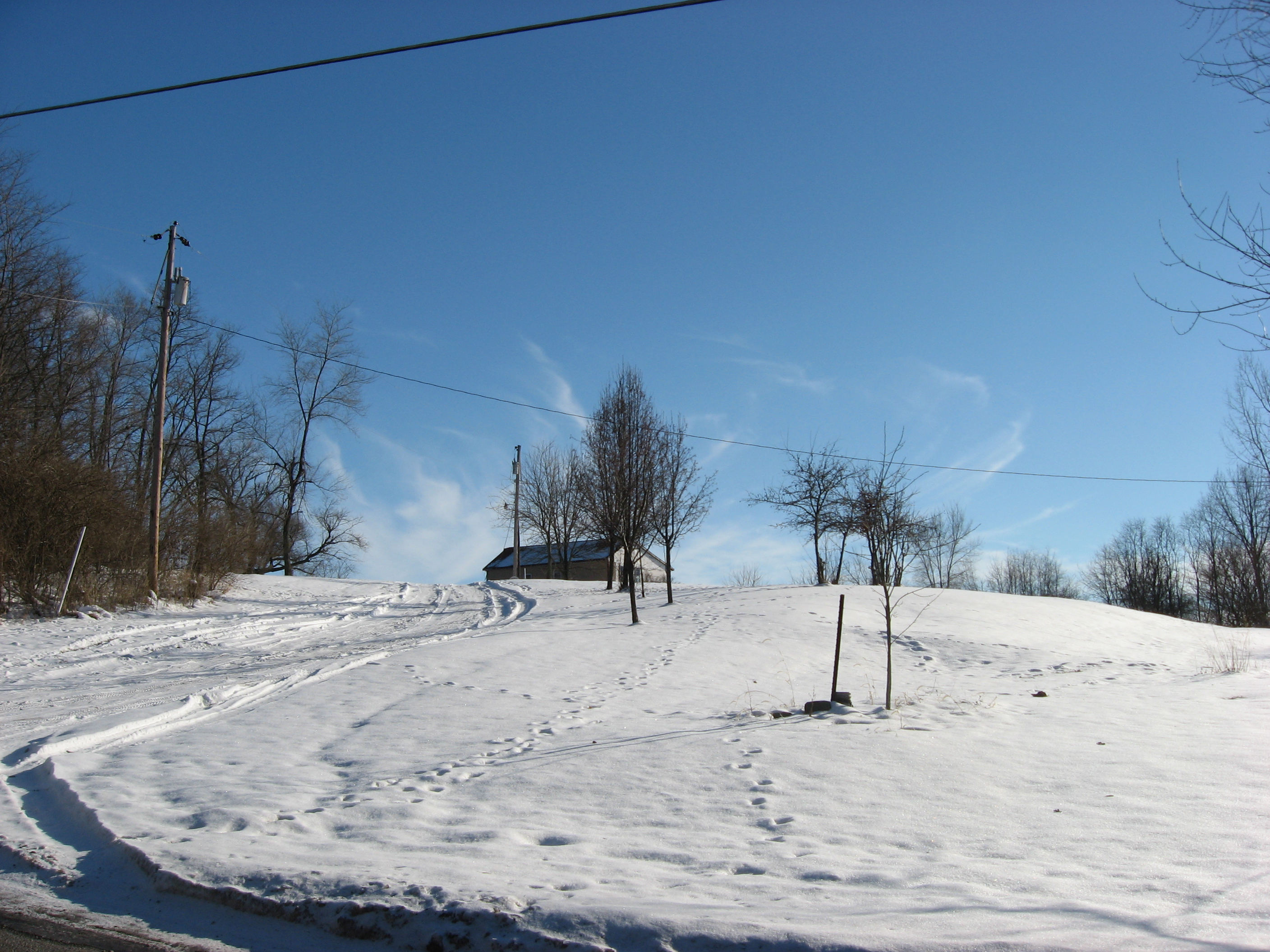 Driveway at 2665 Old Springfield Road south of Springfield in Green Township, Clark County, Ohio, United States. This is the site of the Brewer Log House; built in 1834, it is listed on the National Register of Historic Places, even though it has been destroyed.